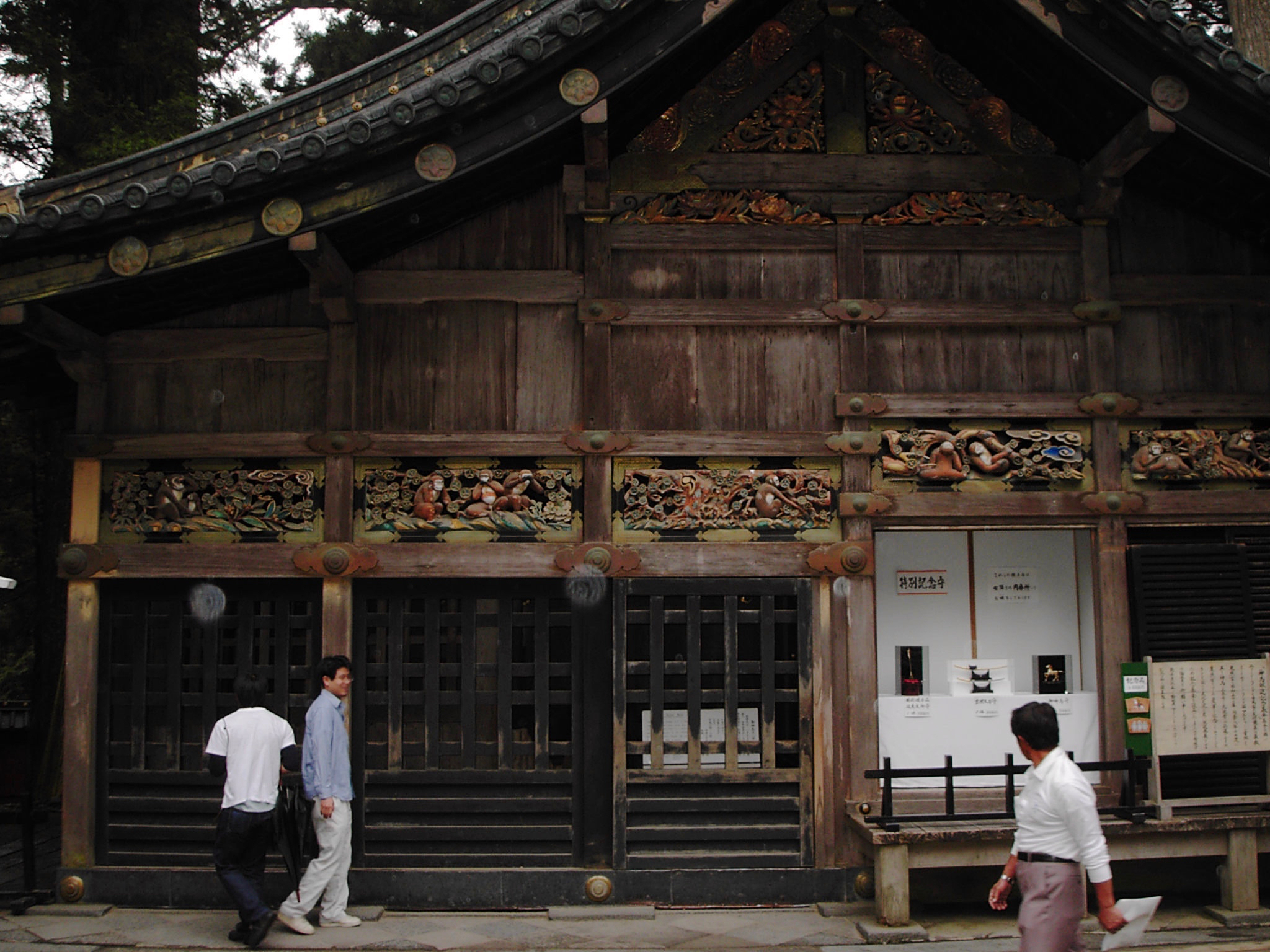 Temple wall with monkey carvings (including the three wise monkeys)